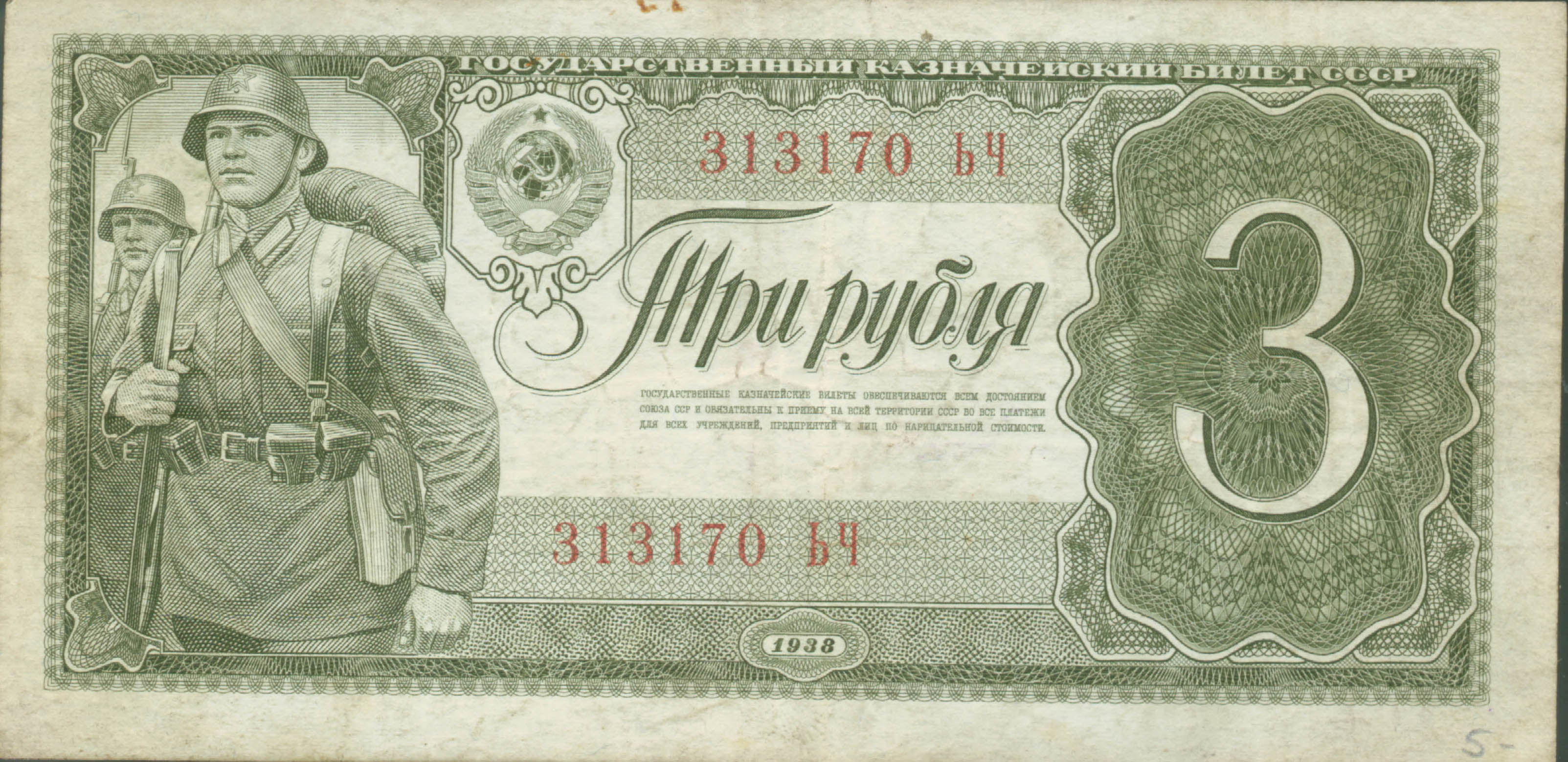 Soviet money bill, 1938 Красноармеец See also other side Image:3roubles1938a.jpg